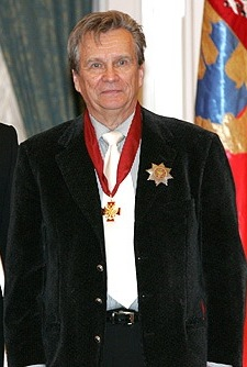 The Russian conductor Vladimir Fedoseyev, chief conductor of the Tchaikovsky Symphony Orchestra of Moscow Radio.